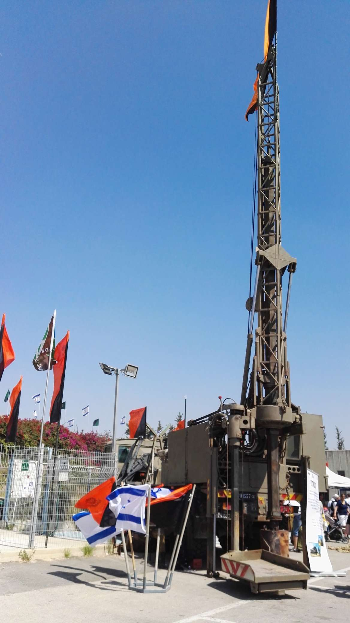 Israel 68th Independence Day Exhibition, Latrun - Driller mounted on Tatra truck.